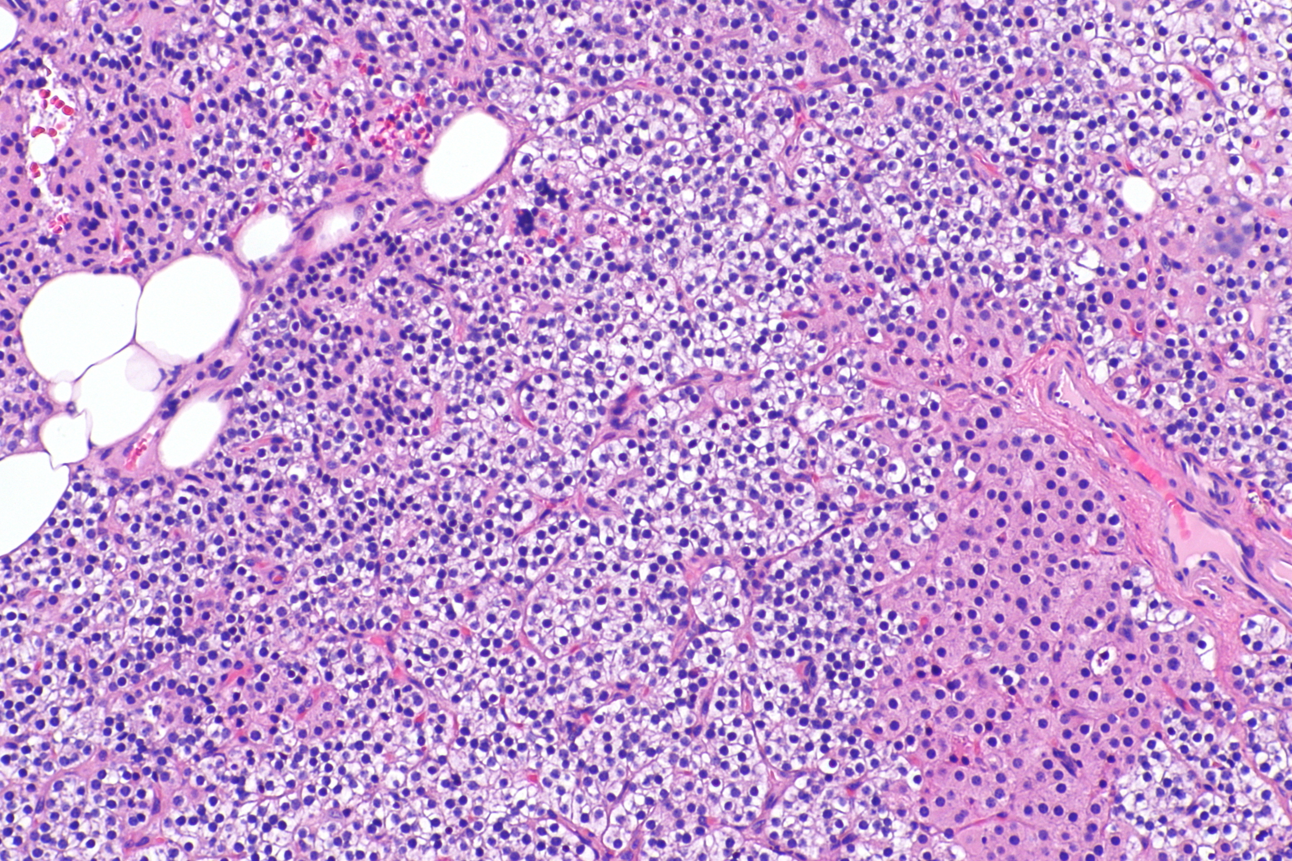 Micrograph showing a parathyroid hyperplasia. H&E stain. Parathyroid hyperplasia is a clinicopathologic diagnosis. The histology is nonspecific. Related images PA - very low mag. PA - low mag. PA - intermed. mag. PA - high mag.